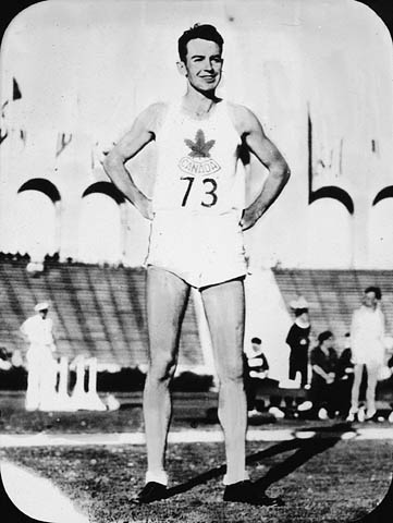 Title / Titre : Canadian high jumper Duncan McNaughton, winner of a gold medal at the IXth Summer Olympic Games / Le sauteur en hauteur canadien Duncan McNaughton, médaillé d'or aux IXe Jeux Olympiques d'été Creator(s) / Créateur(s) : Unknown / Inconnu Date(s) : 1932 Reference No. / Numéro de référence : MIKAN 3191806, 3623310 Location / Lieu : Los Angeles, California, United States of America / Los Angelese, California, États-Unis d'Amérique Credit / Mention de source : Library and Archives Canada, PA-150986 / Bibliothèque et Archives Canada, PA-150986